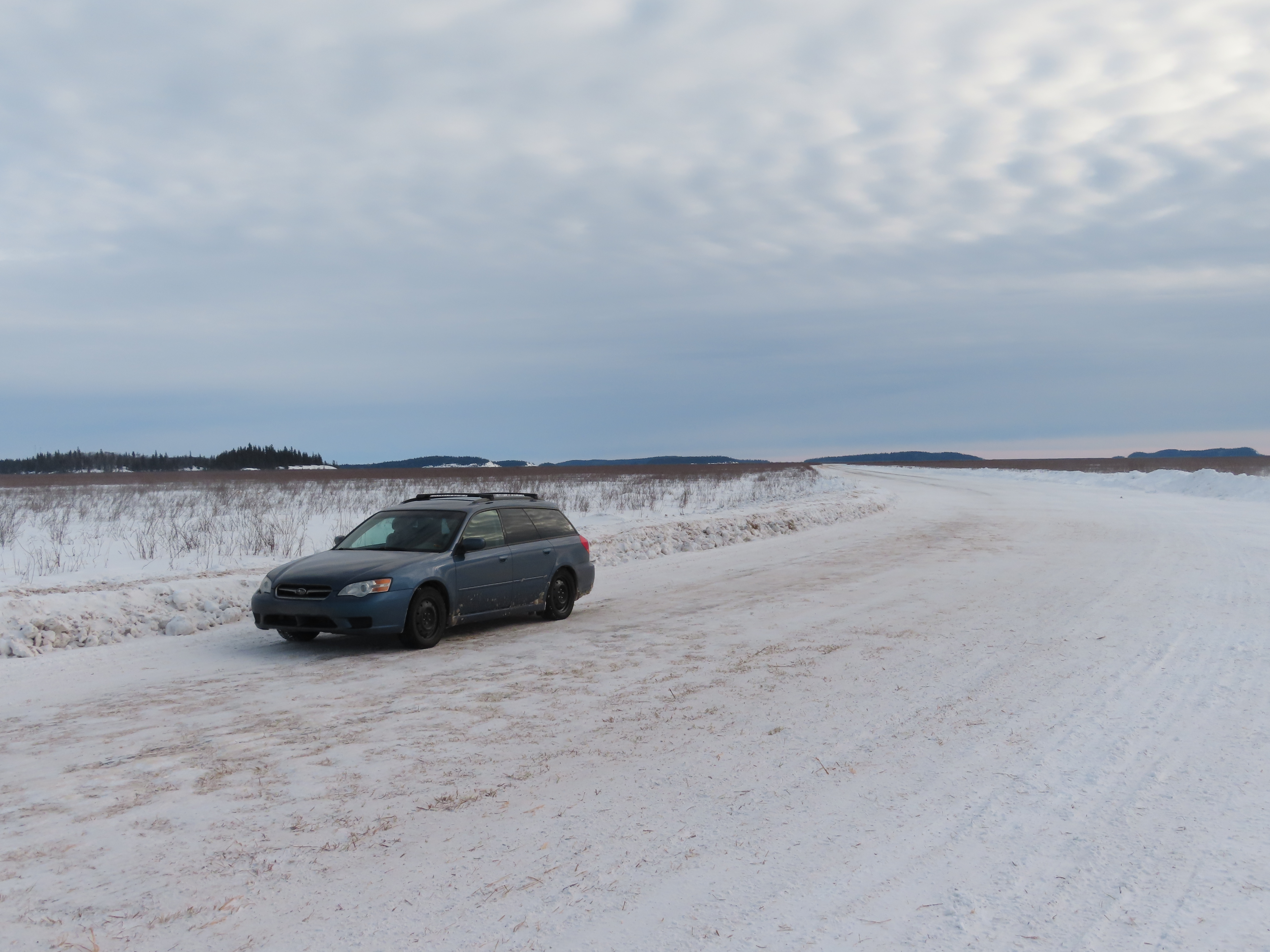 The Fort Chipewyan Winter Road. Vehicle pictured at junction with Fort Chipewyan access road, continuing north to Fort Smith is also possible. Extremely flat landscape here punctuated with low Shield hills. In 2020, the alternate route going around the back of the town, through the airport, was in use.